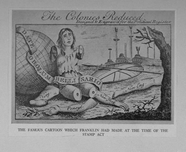 The caption reads: The Colonies Reduced. Design'd & Engrav'd for the Political Register. The Famous Cartoon which Franklin Had Made at the Time of the Stamp Act